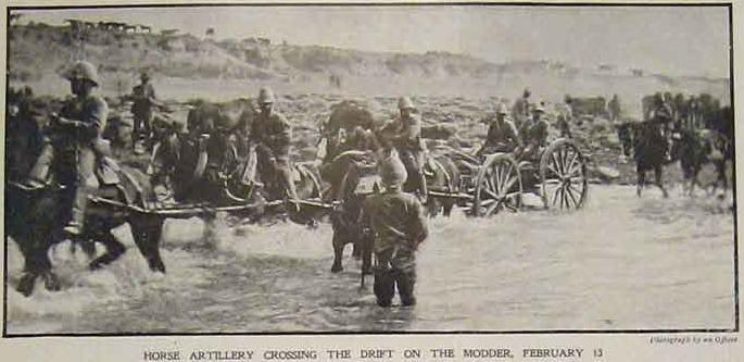 John French's english Cavalry crossing the Modder River at Klip Drift on 13 February 1900 on their way to relieve the siege of Kimberley.